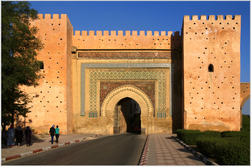 Bab El Khemis Gate, built in 1673, near the quarter of Riad.